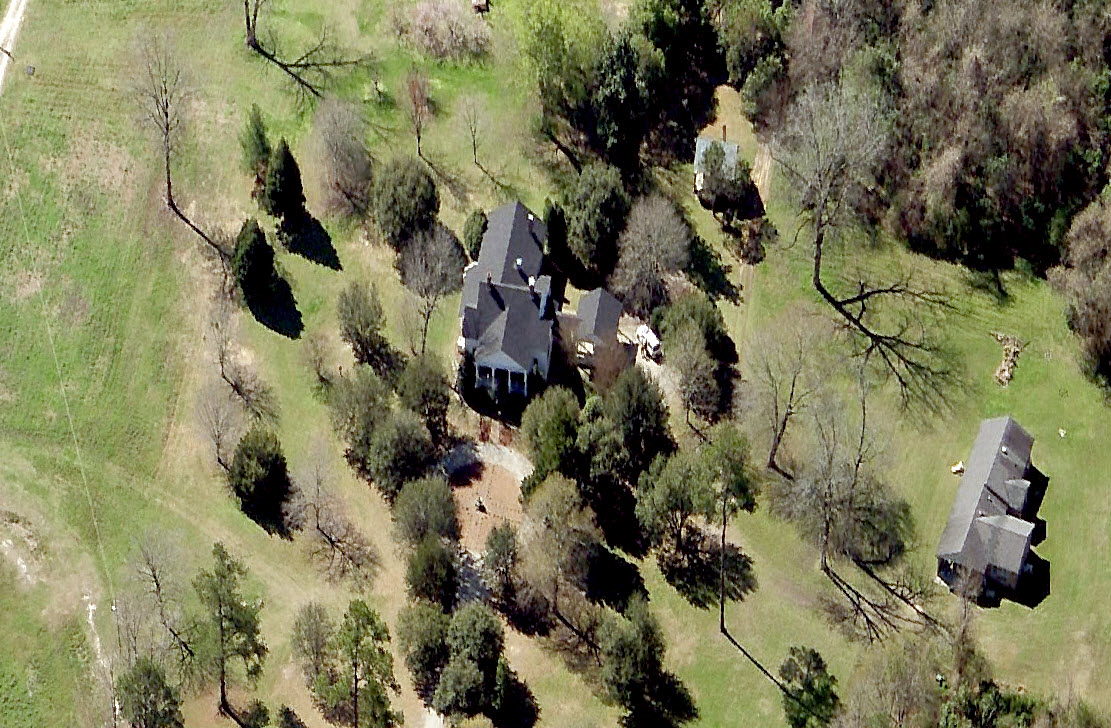 Heriot-Moise House, Junction of U.S. Route 401 and Brewington Rd. Sumter